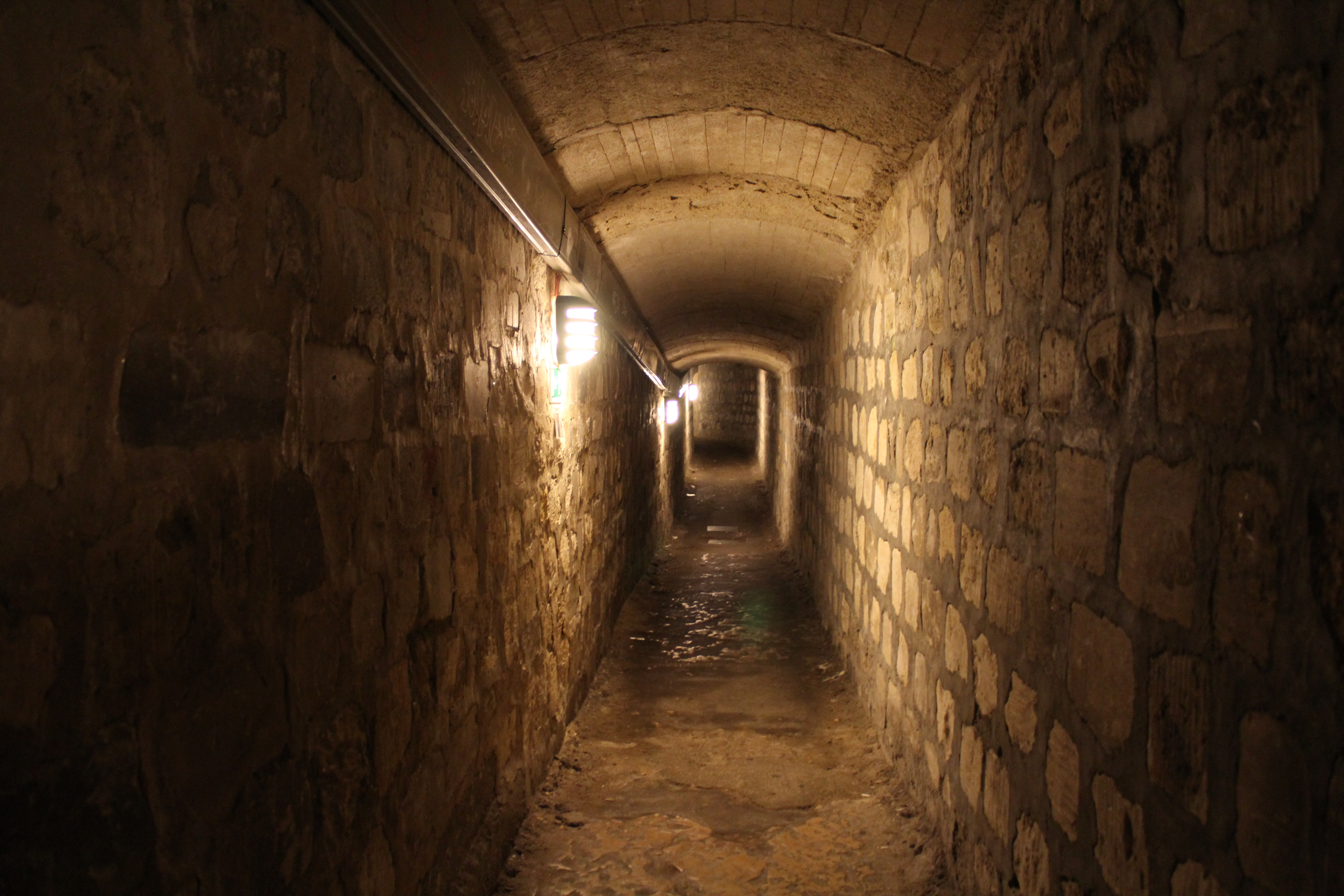 Catacombs of Paris